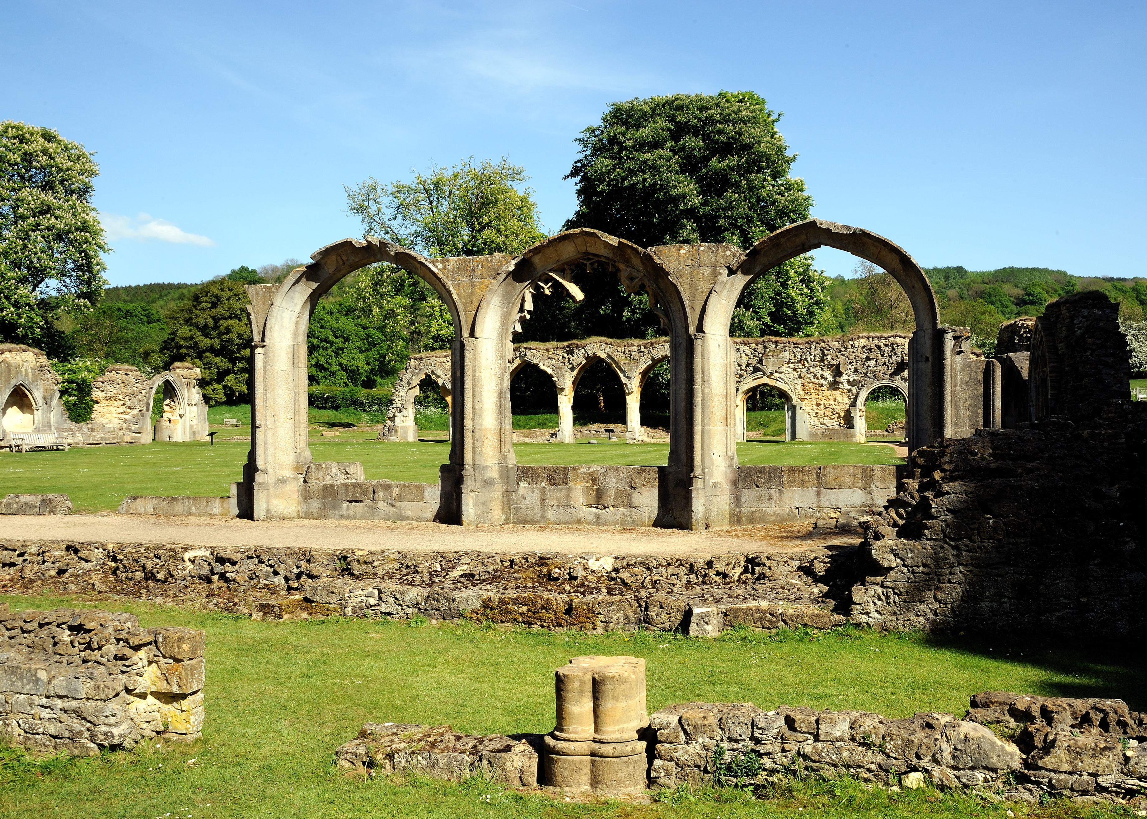 The ruins of Hailes Abbey are two miles northeast of Winchcombe, Gloucestershire, England. The abbey was founded around 1245 by Richard, Earl of Cornwall, called "King of the Romans" and the younger brother of King Henry III of England.